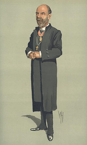 Caricature of The Rt Reverend Herbert Edward Ryle DD CVO.[1] Caption read "The Dean".